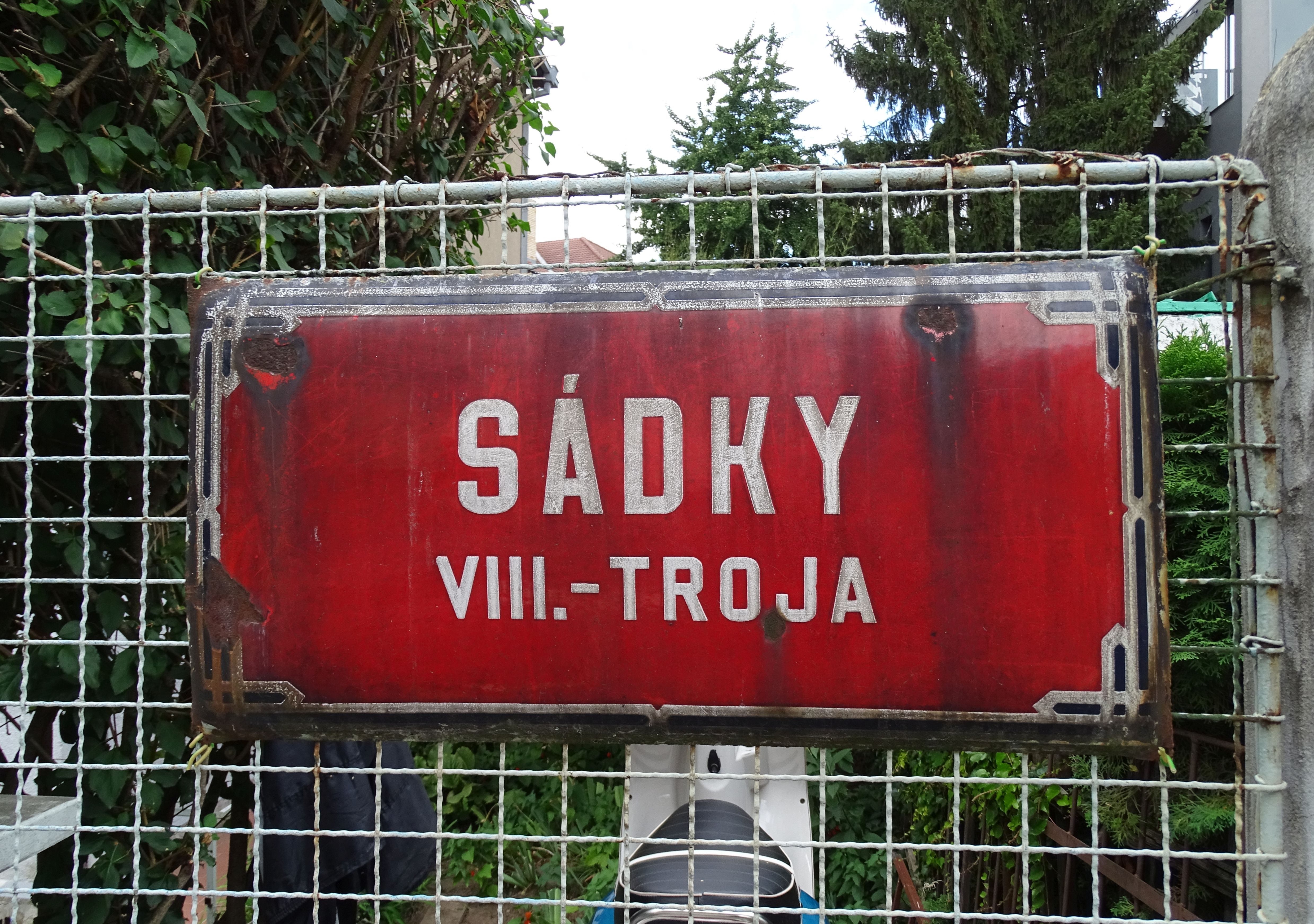 Prague-Troja, Czech Republic. Sádky, an old street sign.